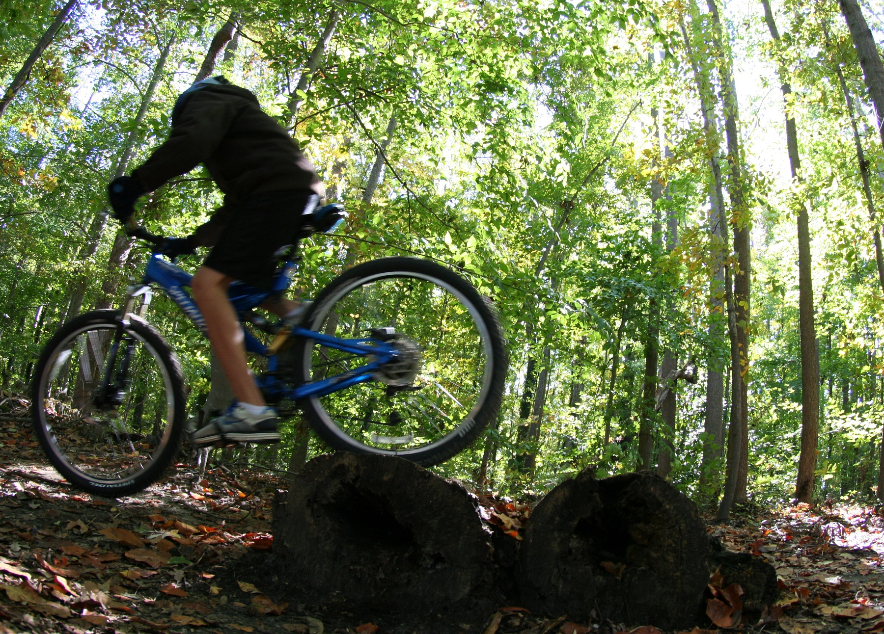 A log pile on a mountain bike trail.